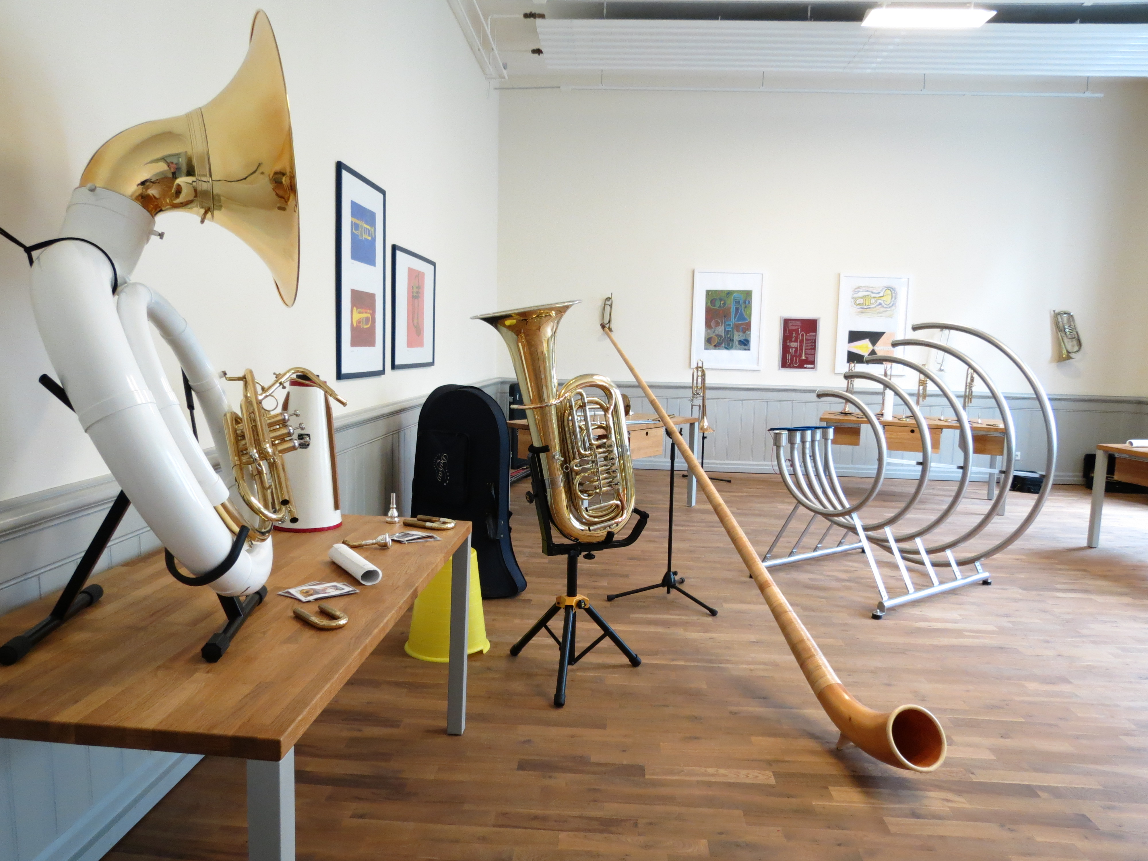 Musiculum Blechblasinstrumente